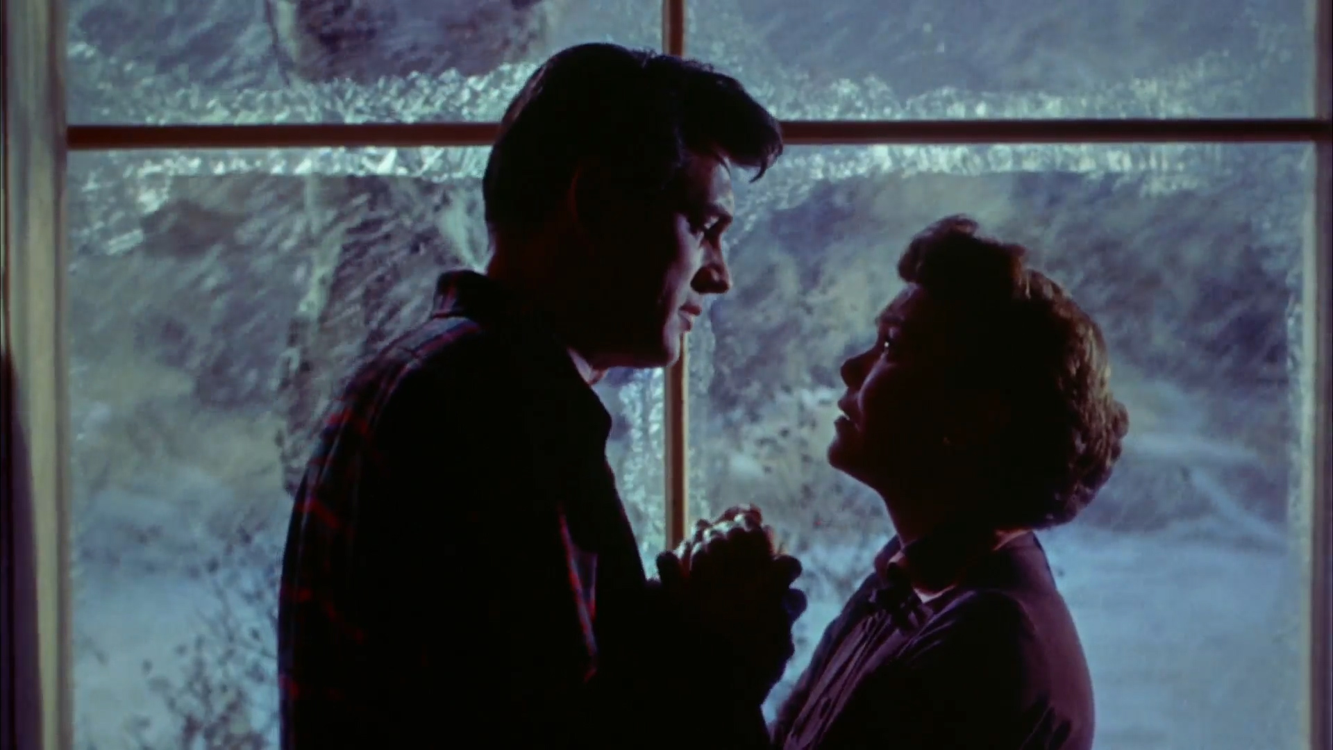 Rock Hudson & Jane Wyman in All That Heaven Allows - trailer (cropped screenshot)